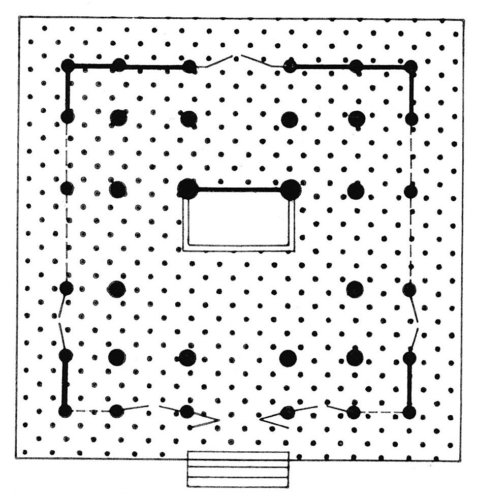 Shôfuku-ji (Higashimurayama) Jizôdô